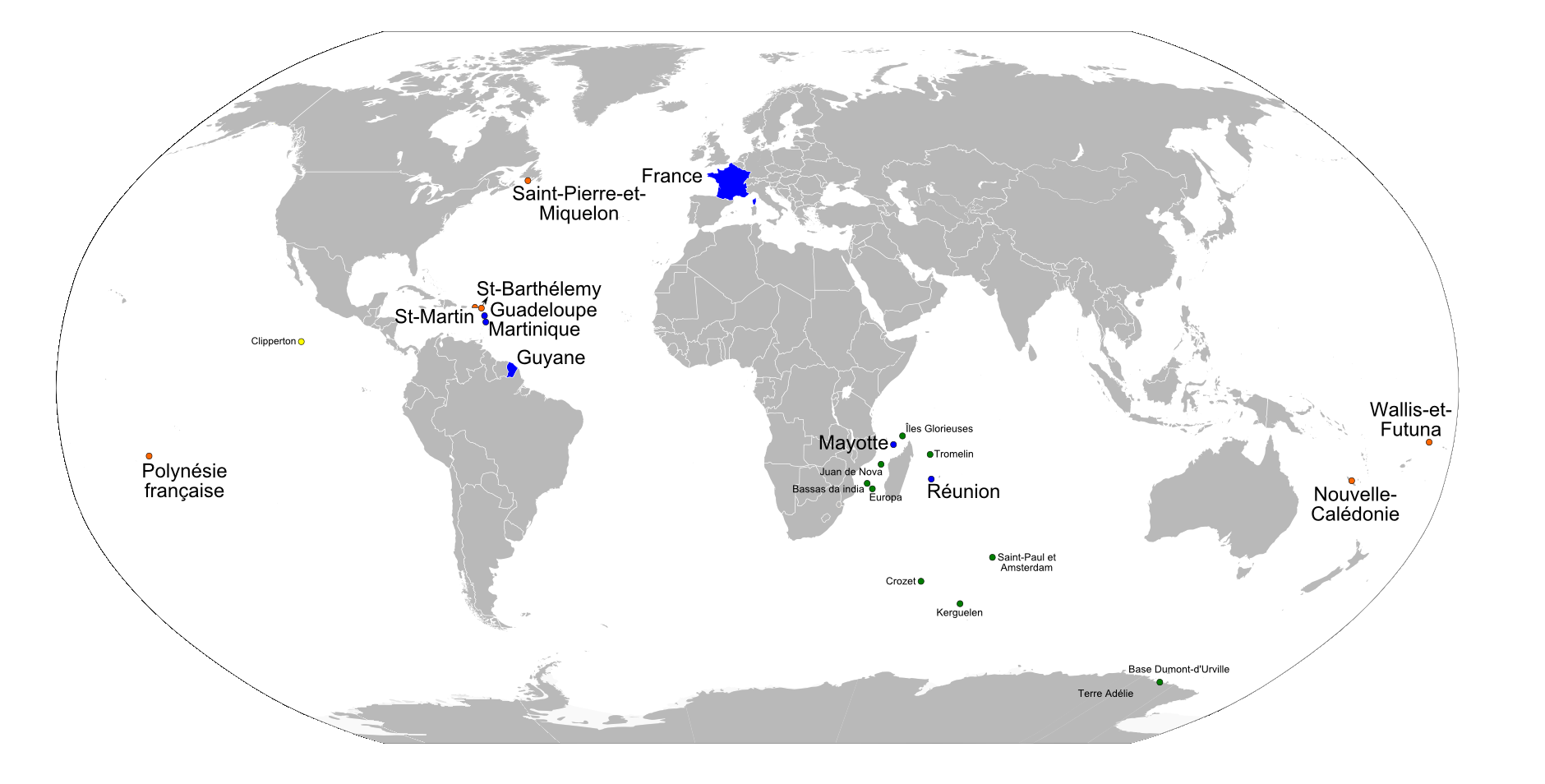 Overseas departments and territories of France in the world, situation in 2007. Legend: Metropolitan France and overseas departments and regions (DOM-ROM). Overseas collectivities and New Caledonia. French Southern and Antarctic Lands. Clipperton, State's property. Big names: territories with permanent population. Smaller names: territories with non-permanent population, mainly scienfitic missions. Created from the 9 January 2007 04:37 version of Image:BlankMap-World6.svg. Layers included: colored points of location; names; Antarctic; hidden: Andorra and Monaco locations.